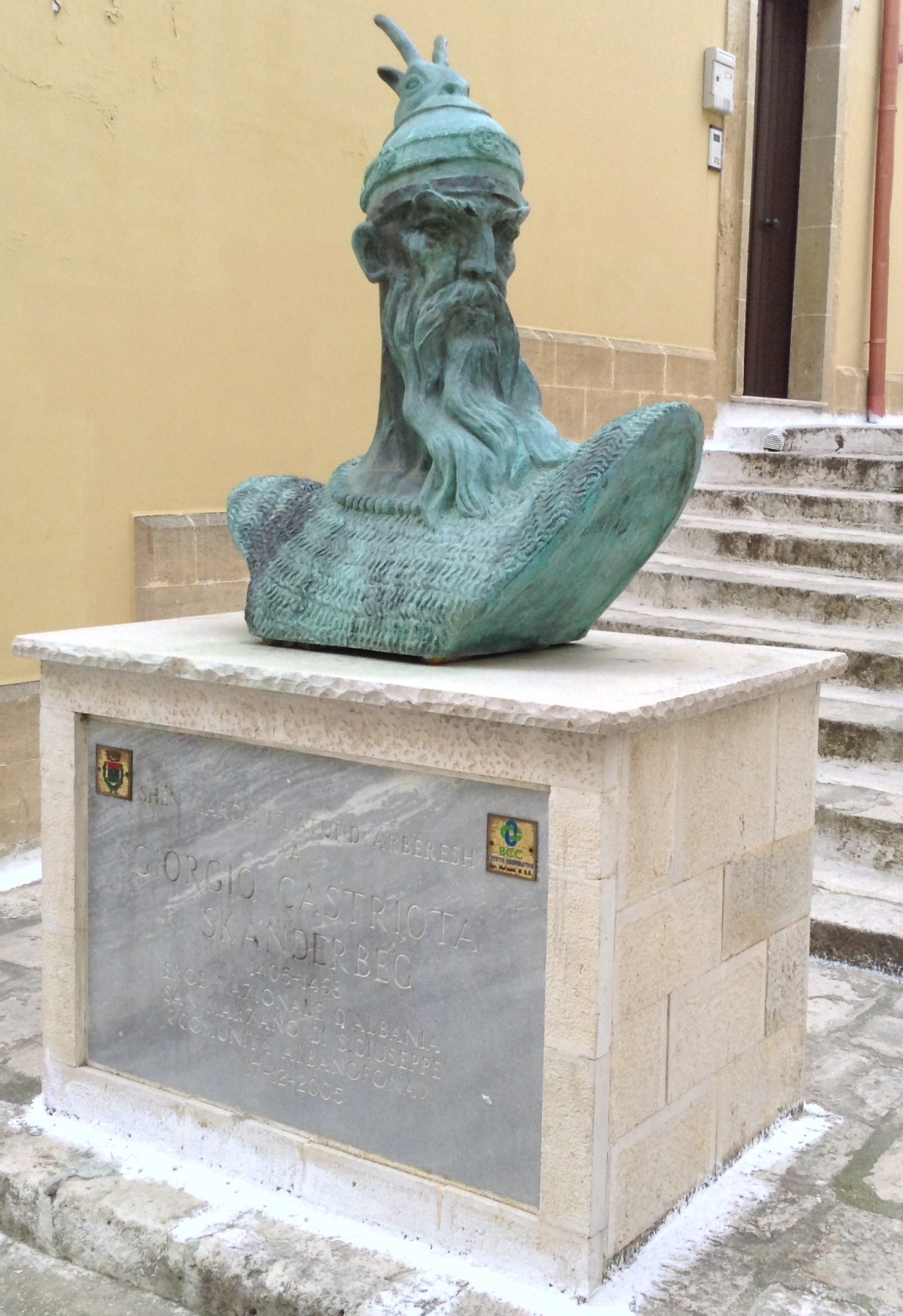 Skanderbeg statue in San Marzano di San Giuseppe